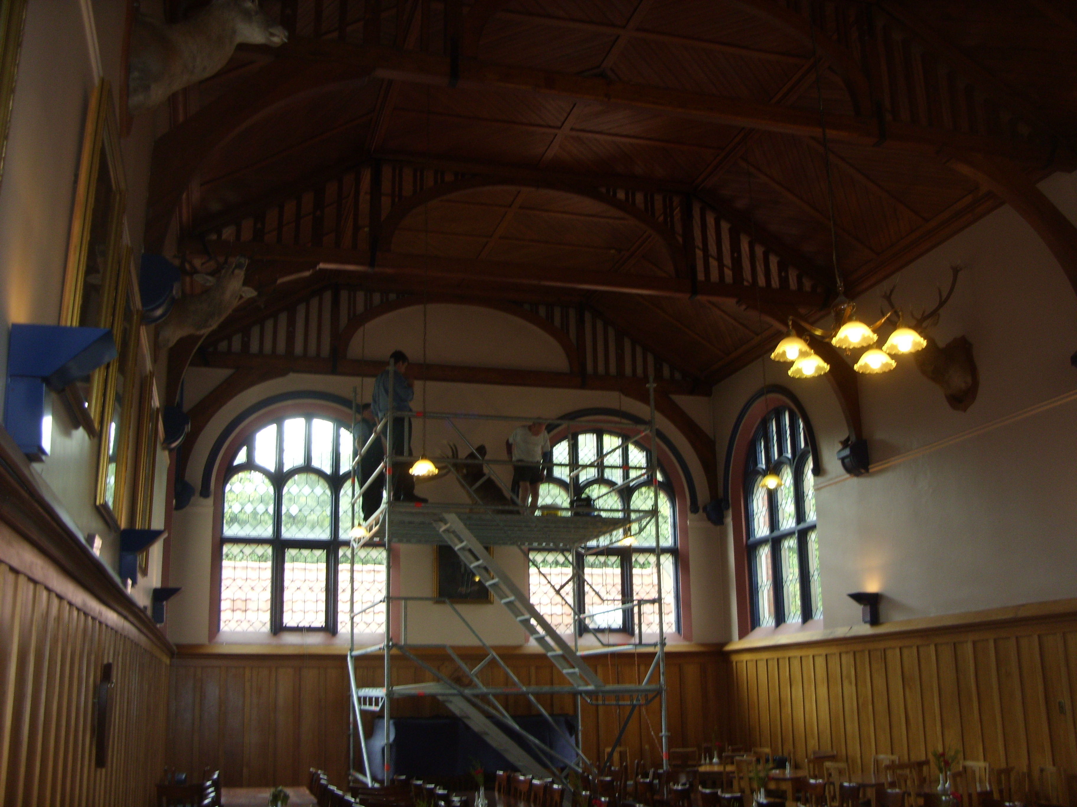 Installation of a wapiti into the Great Hall, Knox College, Dunedin, New Zealand